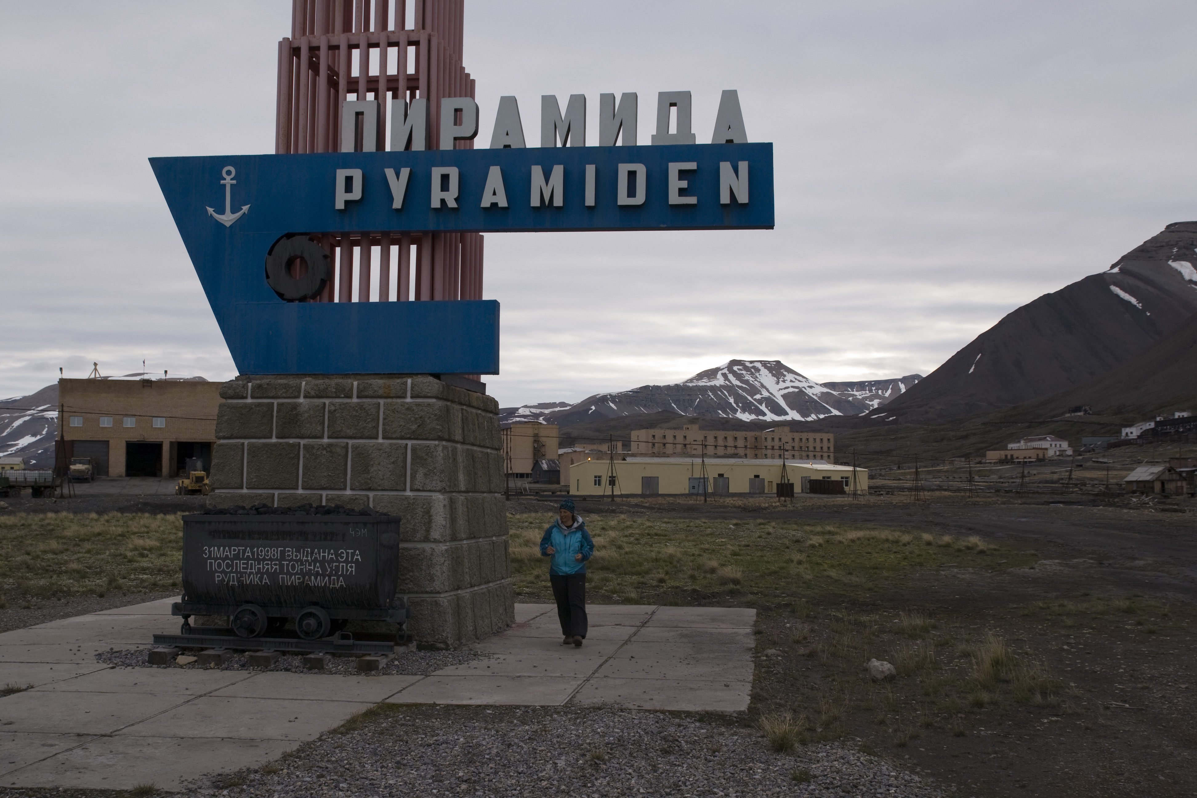 Pyramiden, Svalbard